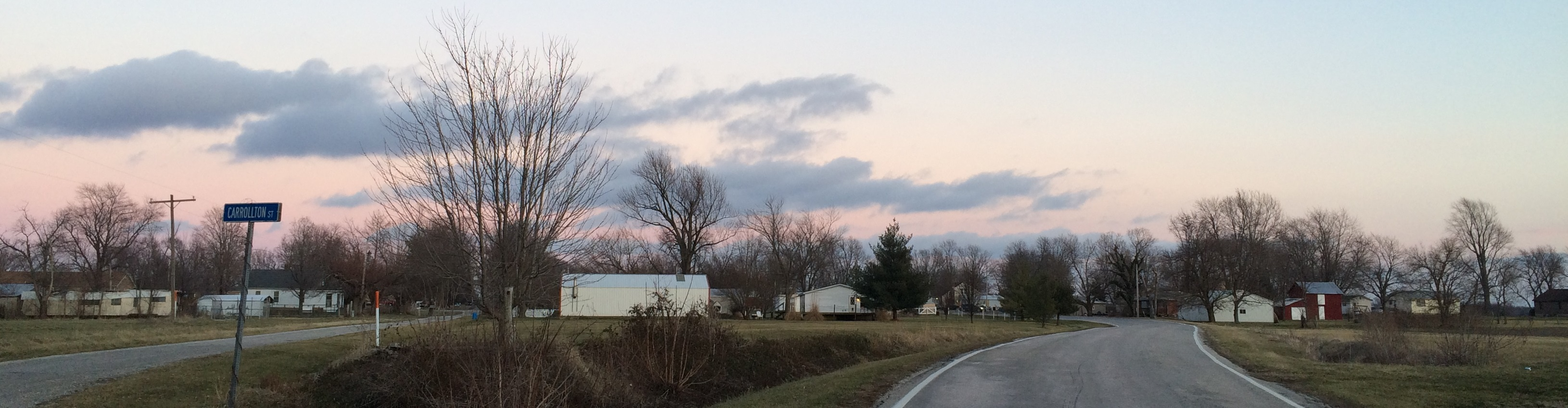 View coming into Woodburn, Illinois from the west on Brighton-BunkerHill Road